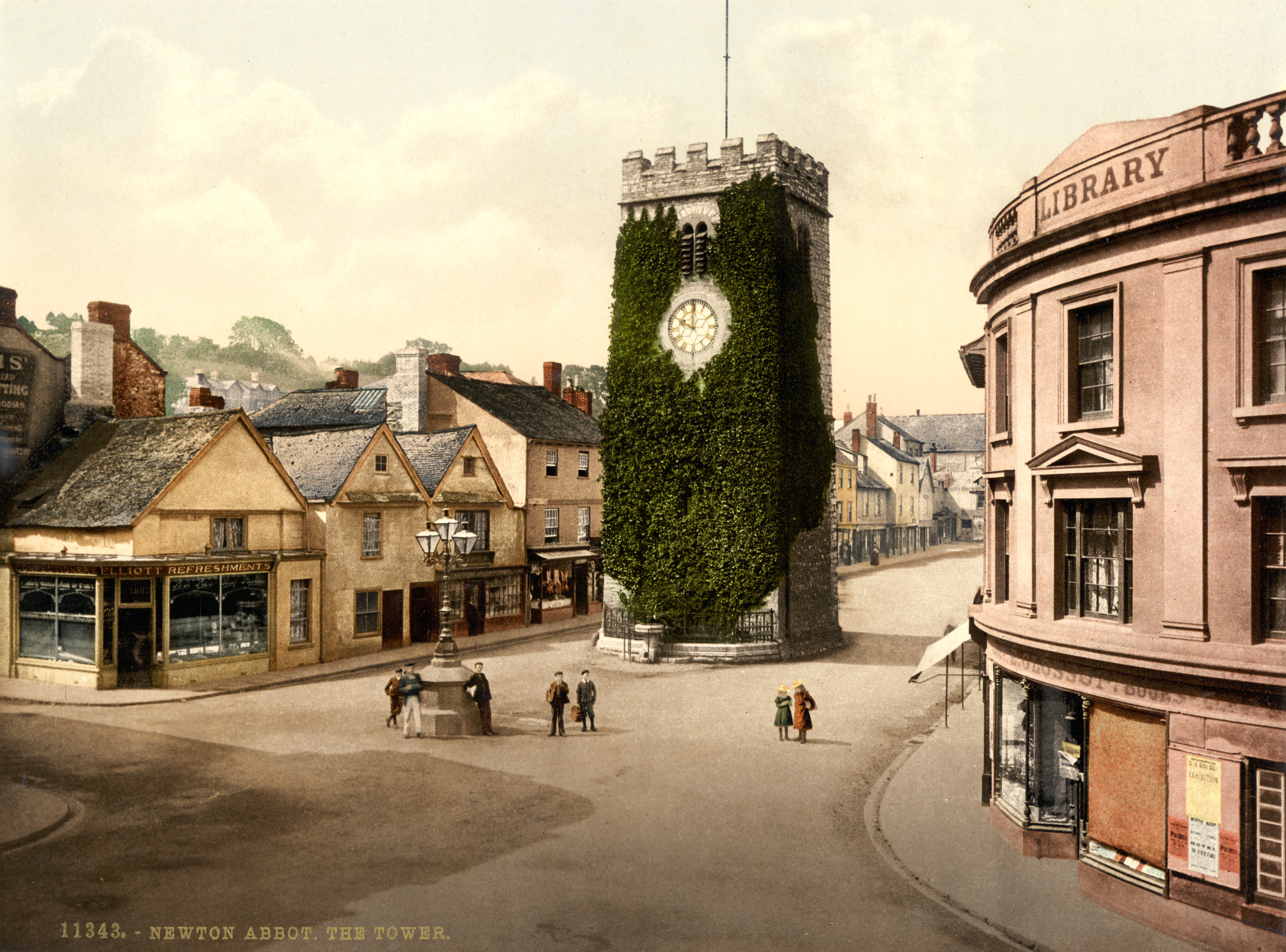 Photochrom print by Photoglob Zürich, between 1890 and 1900. From the Photochrom Prints Collection at the Library of Congress More photochroms from England | More photochrom prints [PD] This picture is in the public domain